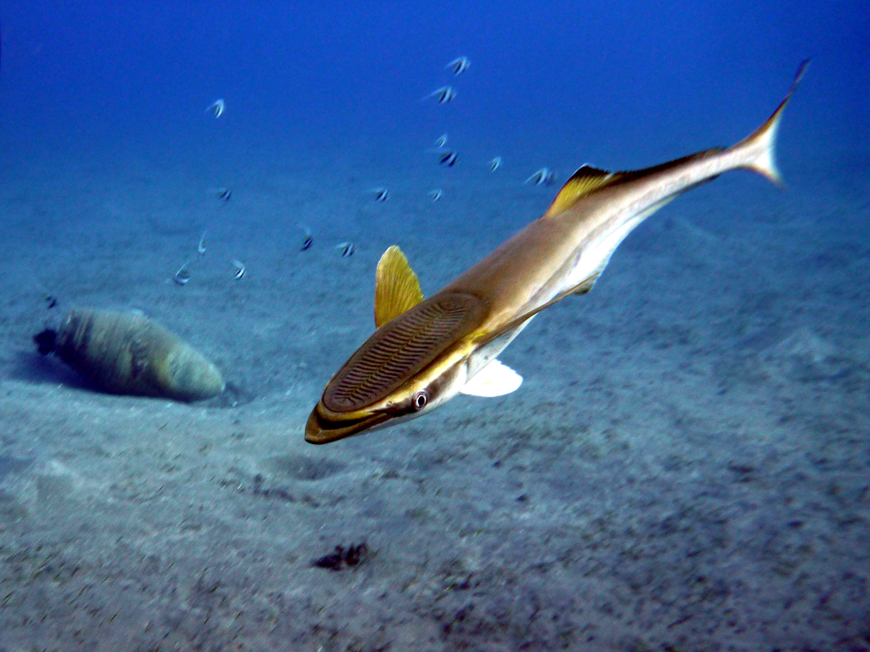 Diving in the bight of Marsa Murena, Egypt, Red Sea (Echeneis naucrates)